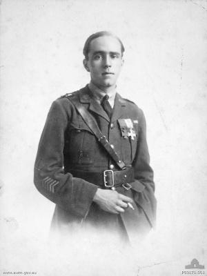 Studio portrait of Lieutenant Joseph Maxwell VC, MC & Bar, DCM; an Australian recipient of the Victoria Cross during World War I.